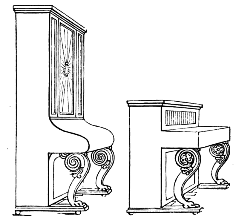 Robert Wornum's largest and smallest upright pianos, six feet six inches and three feet four inches in height and costing from fifty to one hundred guineas and thirty-six to fifty-five guineas respectively.